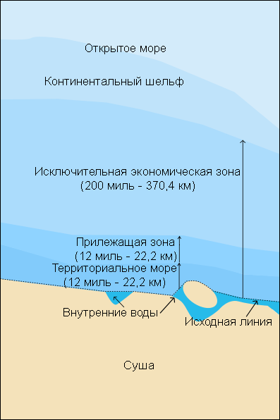 Sea areas in international rights